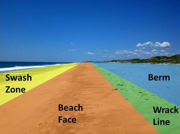 The four sections found at most beaches. (credit-National Park Service)